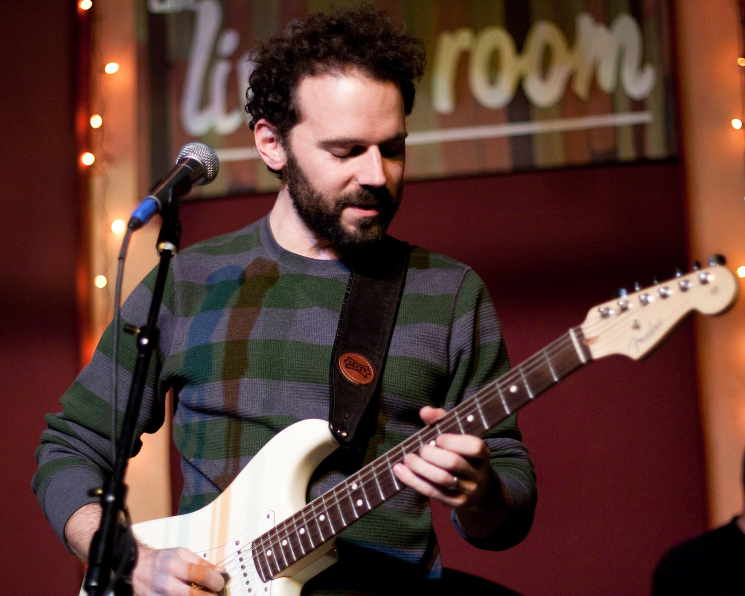 Weinstein onstage at The Living Room, New York City, January 14, 2010